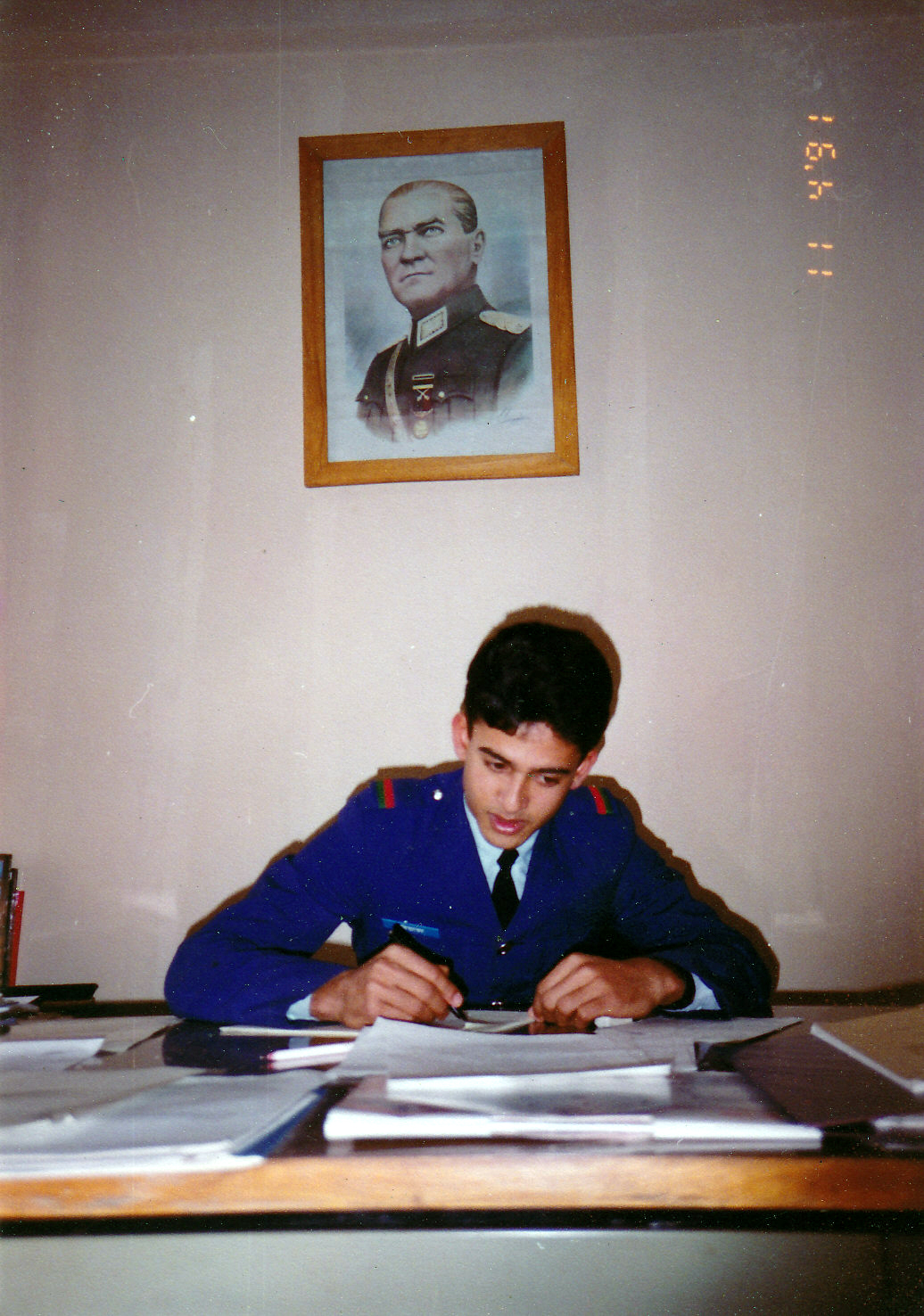 Bangladeshi film star Riaz at Bangladesh Air Force (BAF)